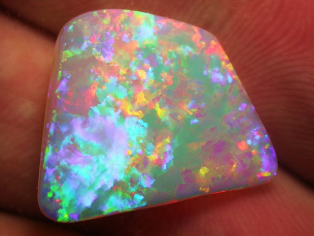 Cut and polished Brazilian crystal opal, 10.7 carats.